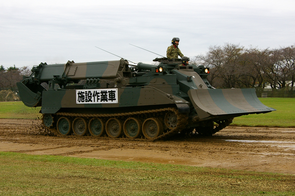 JGSDF Combat engineering vehicle.Taken by Los688,at Camp Katsuta,25-Oct-2008.PD-self